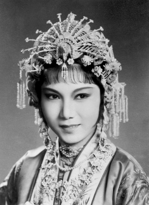 Xin Fengxia as Zhao Wuke in the 1964 ping opera film "Hua Wei Mei" (Flowers as Matchmaker)